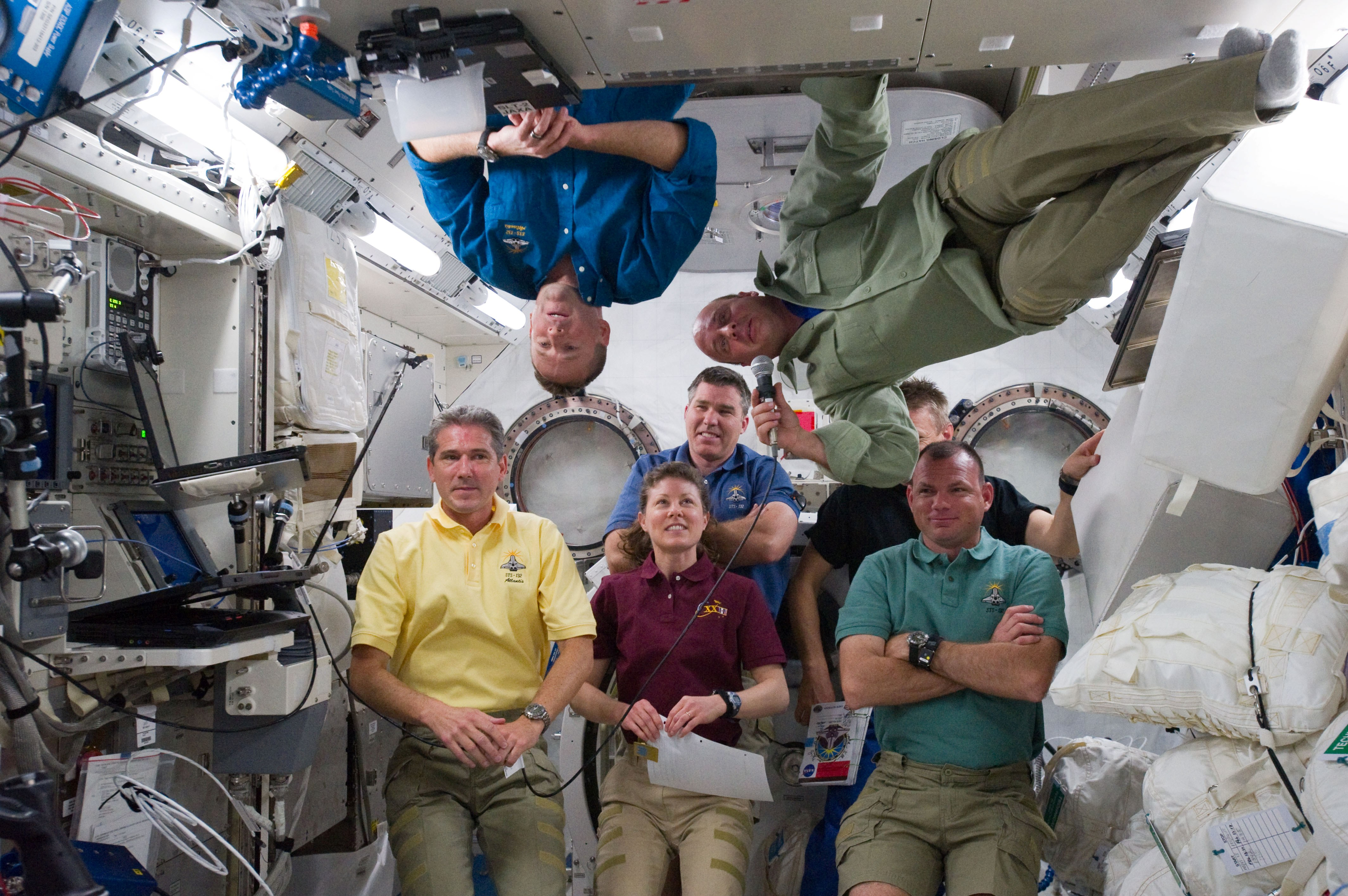 NASA astronauts Ken Ham (top left), STS-132 commander; Tony Antonelli, STS-132 pilot; Tracy Caldwell Dyson, Expedition 23 flight engineer; Michael Good, Steve Bowen, Garrett Reisman and Piers Sellers, all STS-132 mission specialists, are pictured in the Kibo laboratory of the International Space Station during an educational event.